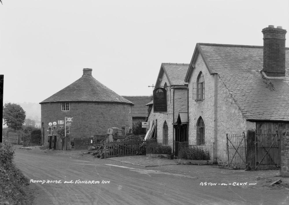 Abstract: Round house and Kangaroo Inn Aston-on-Clun